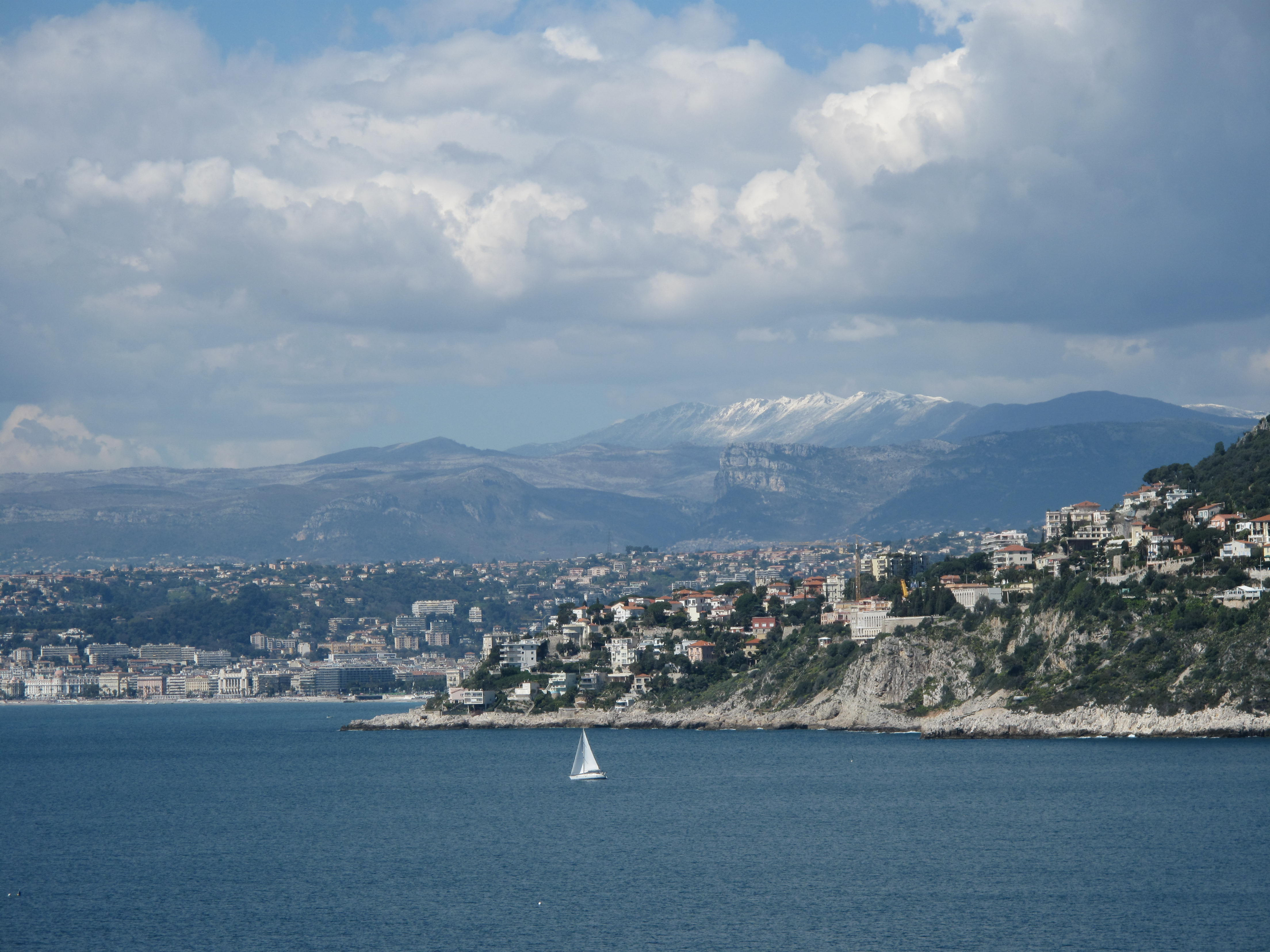 The town of Nice and the hill of Mont-Boron seen from the Cap-Ferrat (Alpes-Maritimes, France).